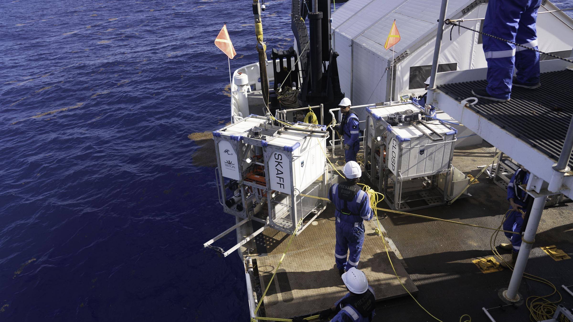 Two Benthic landers will be prepared for a launch